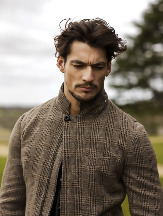 2009 Photoshoot of David Gandy by Arnaldo Anaya-Lucca for GQ Japan